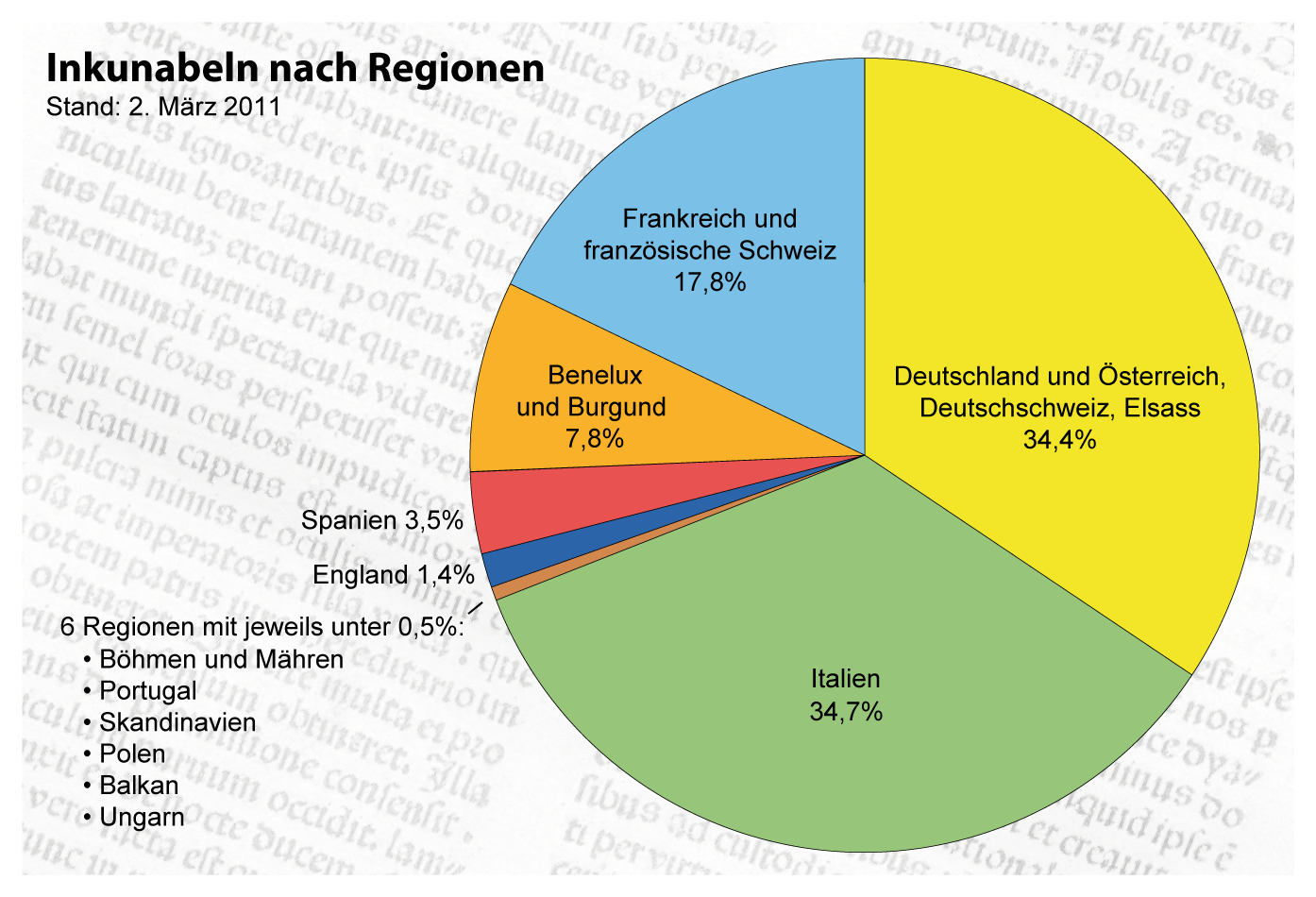 Incunabula distribution by region. The data is based on the Incunabula Short Title Catalogue of the British Library (as of March 2, 2011).